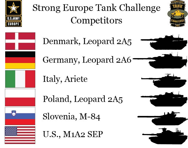 These fact sheets show some basic information about the platoons that are competing in the Strong Europe Tank Challenge May 10-13, 2016.